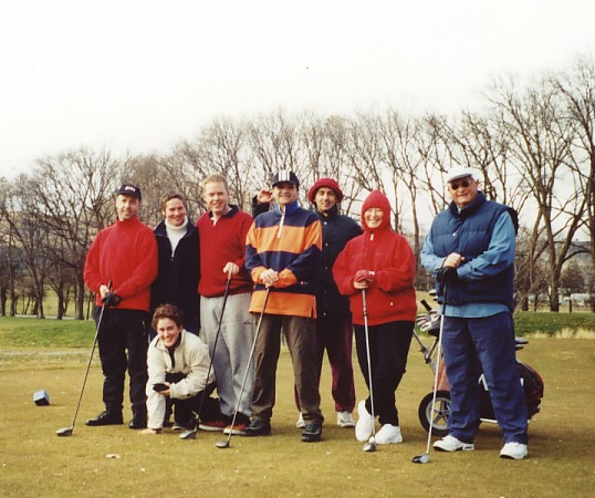 Aipng (second from the right) at golf party, NZ, Juy 2000